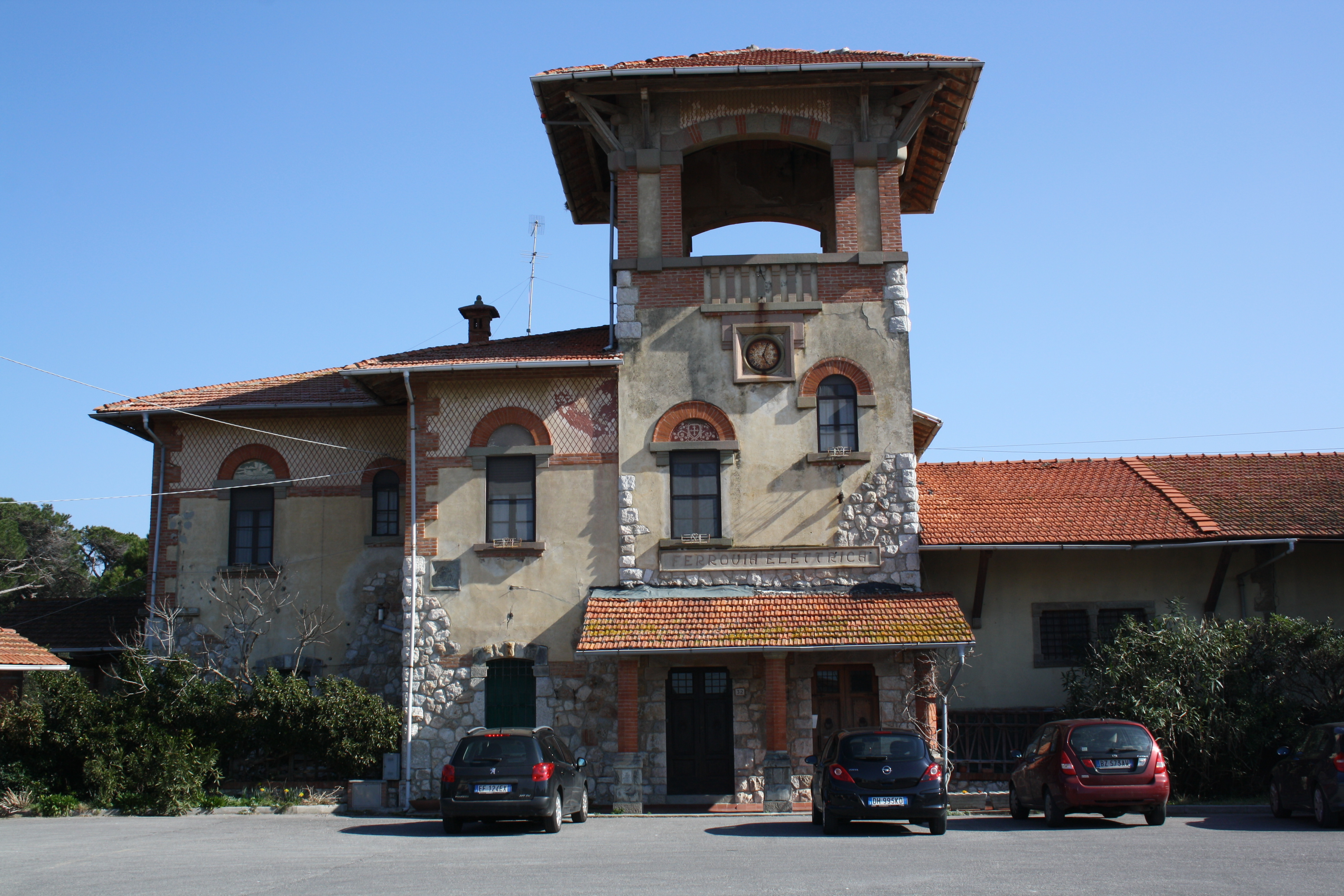 Italy, Tuscany, Marina di Pisa, Ferrovia Pisa-Tirrenia-Livorno. The railway station no longer in use since 1960.